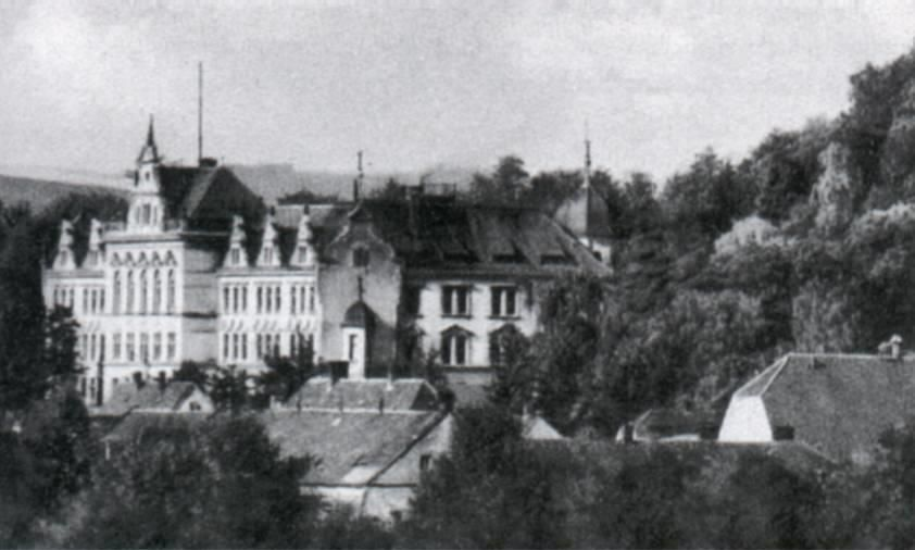 Reifensteiner Schule Maidhof